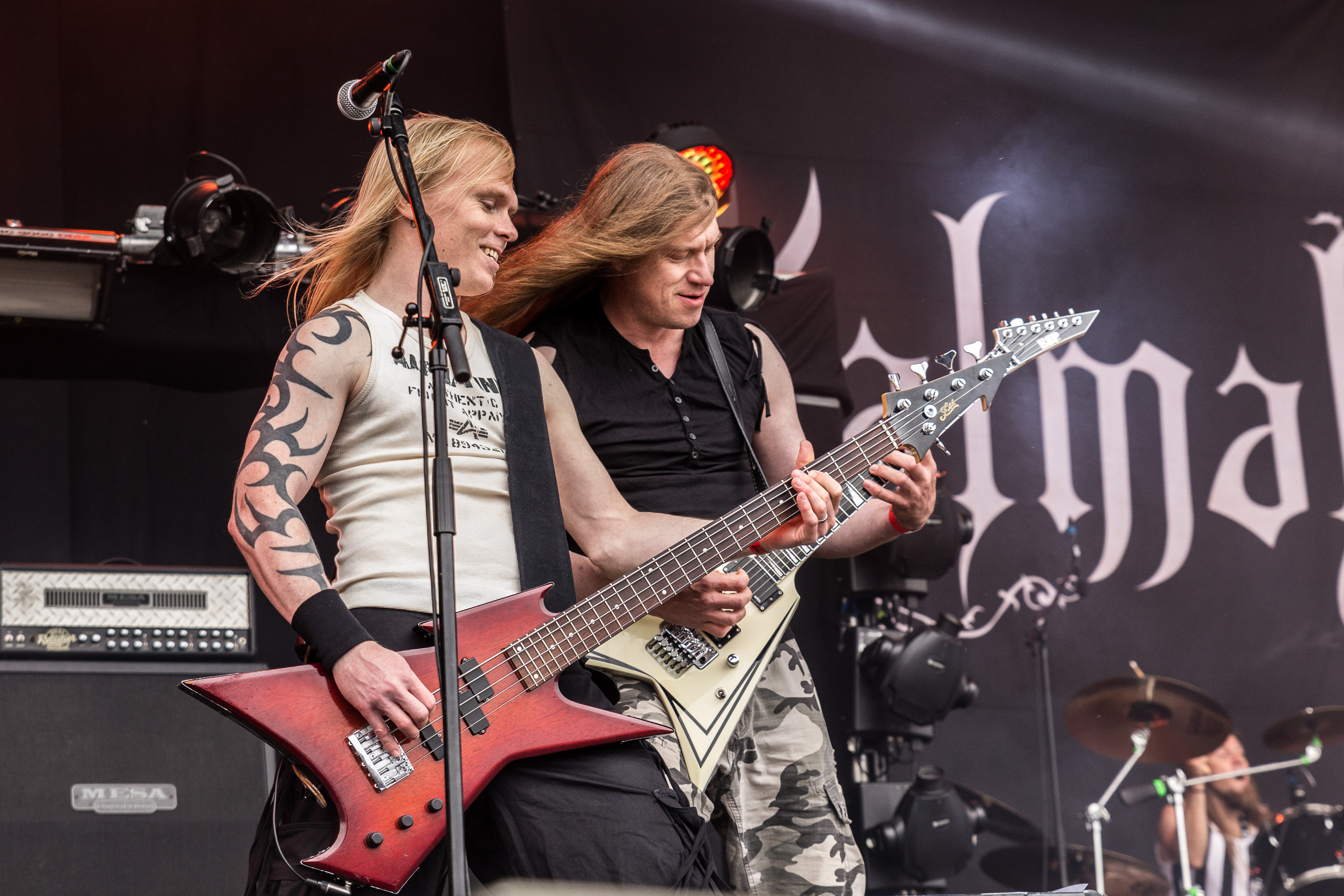 The Finnish melodic death metal band Kalmah at the Party.San Metal Open Air 2017 in Obermehler-Schlotheim/Germany.